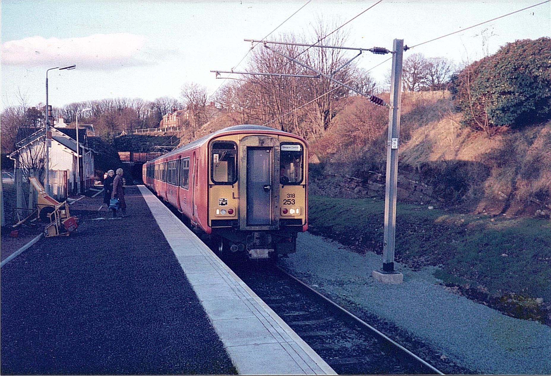 Class 318 - 318 253 on an afternoon service from Largs to Glasgow Central during the first month of electric train services to Largs.